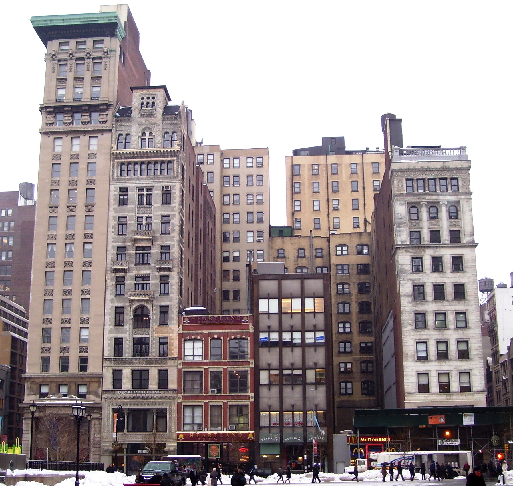 Six buildings on Union Square West, between 16th and 17th Streets, in Manhattan, New York City. 31 (far left) is the Bank of the Metropolis Building, Blue Water Grill restaurant, condominiums 33 (left) is the Decker Building, Puma Store, condominiums 35 (middle left) Heartland Brewery restaurant, apartments 37 (middle right) Republic restaurant, offices 39 (right) MacDonald's fast-food restaurant 41 (far right, scaffolding) Hartford Building, Starbucks coffee shop, offices, studios